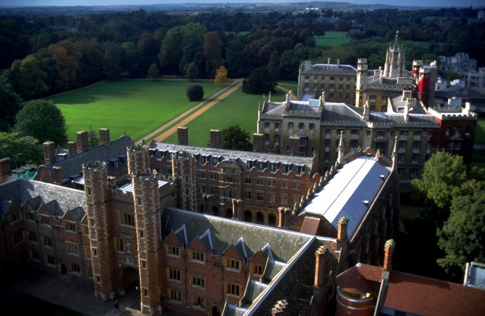 Photo by Bob Tubbs of the rear of Second Court, St John's College, Cambridge, Third Court and New Court (at back). The Backs are behind.